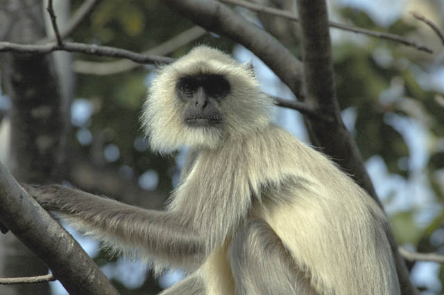 Langur taken in Pench National Park